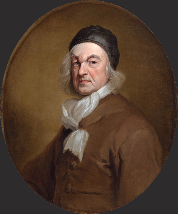 Portrait of Charles de Marguetel de Saint-Denis de Saint-Evremond (1614-1703)